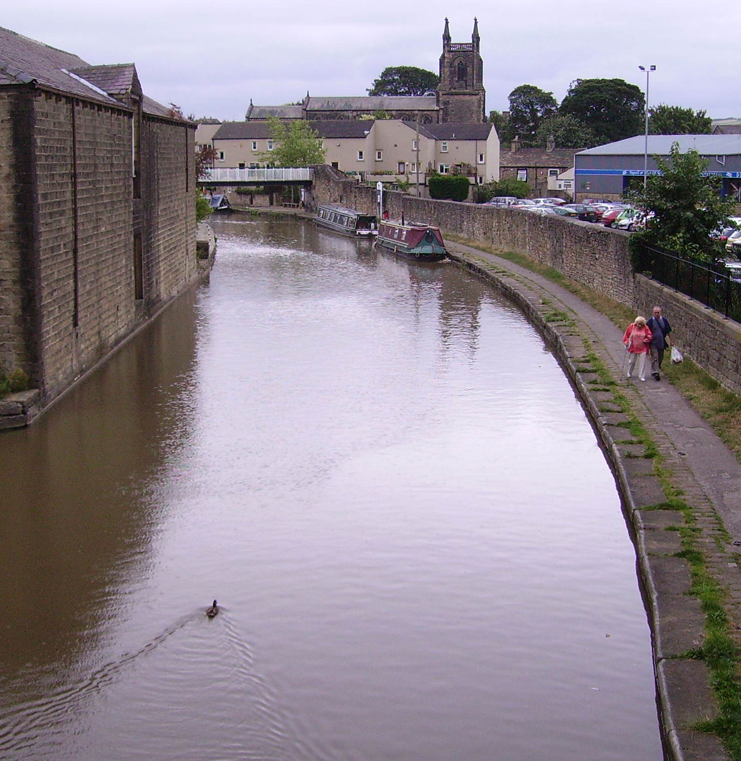 canal in Skipton, United Kingdom